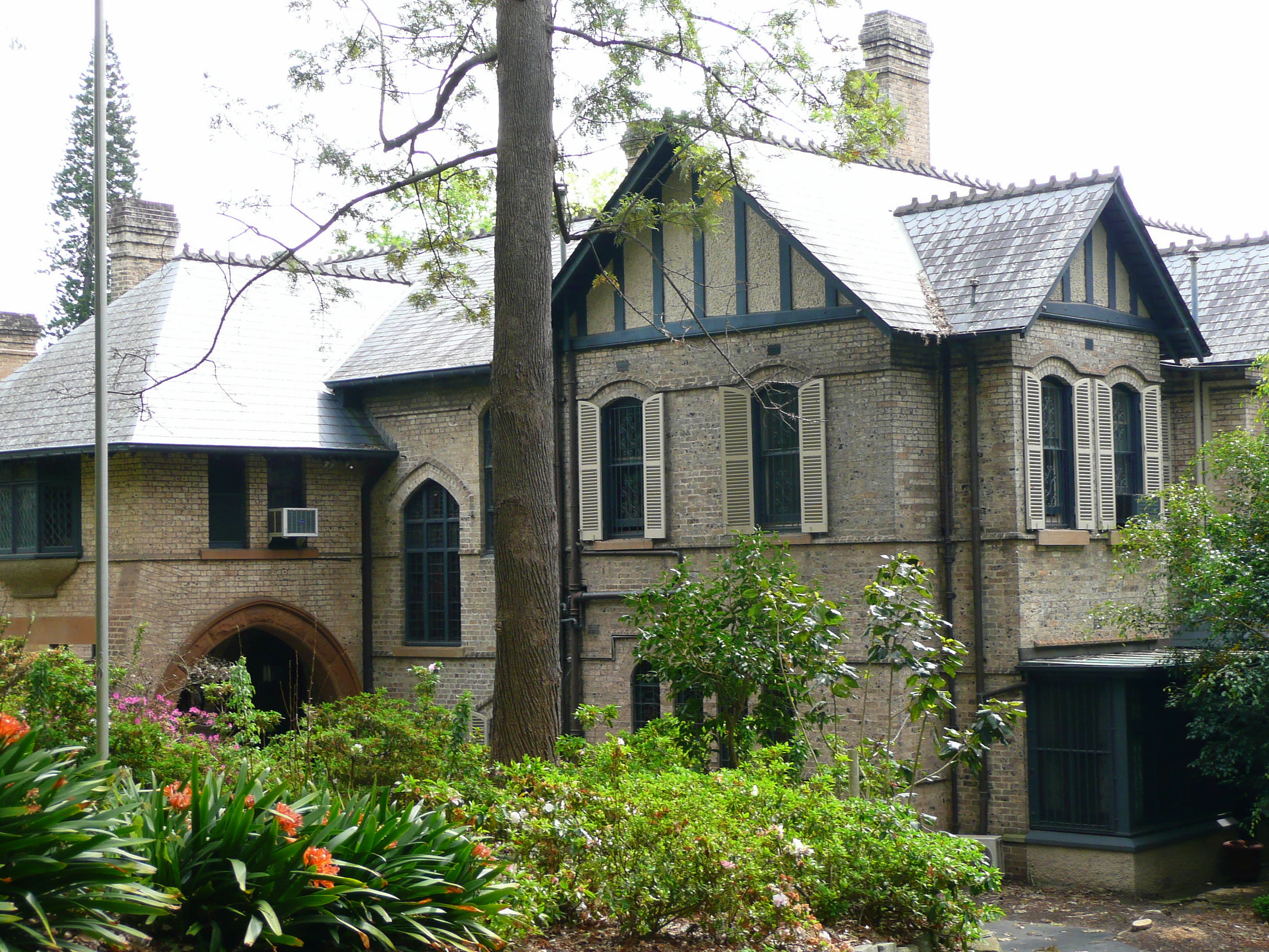 Fairwater, Double Bay, Sydney, New South Wales, Australia. (image has been altered by User:Sardaka to eliminate tilt, 2017-9-24)